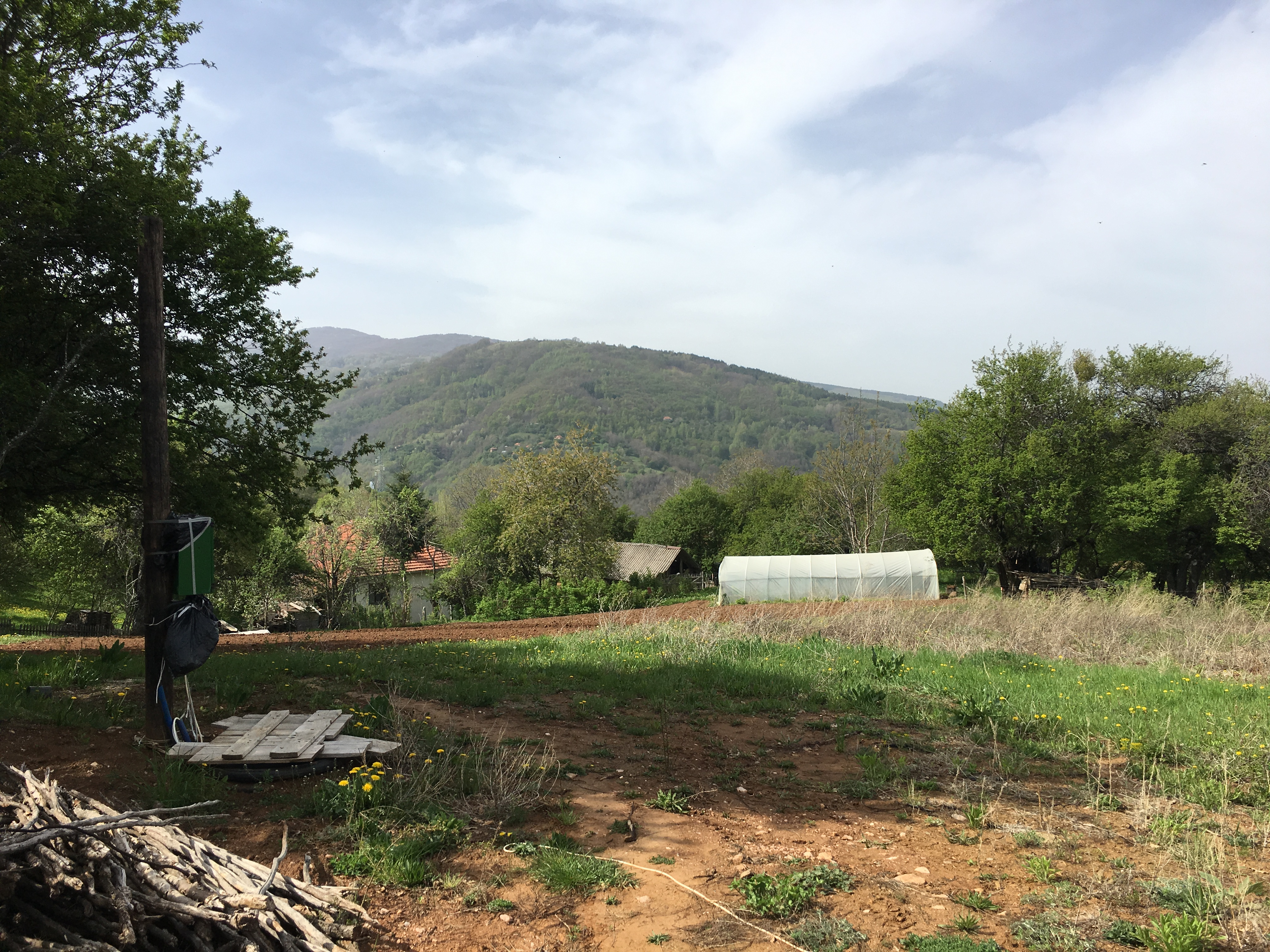 A view of the village of Košari